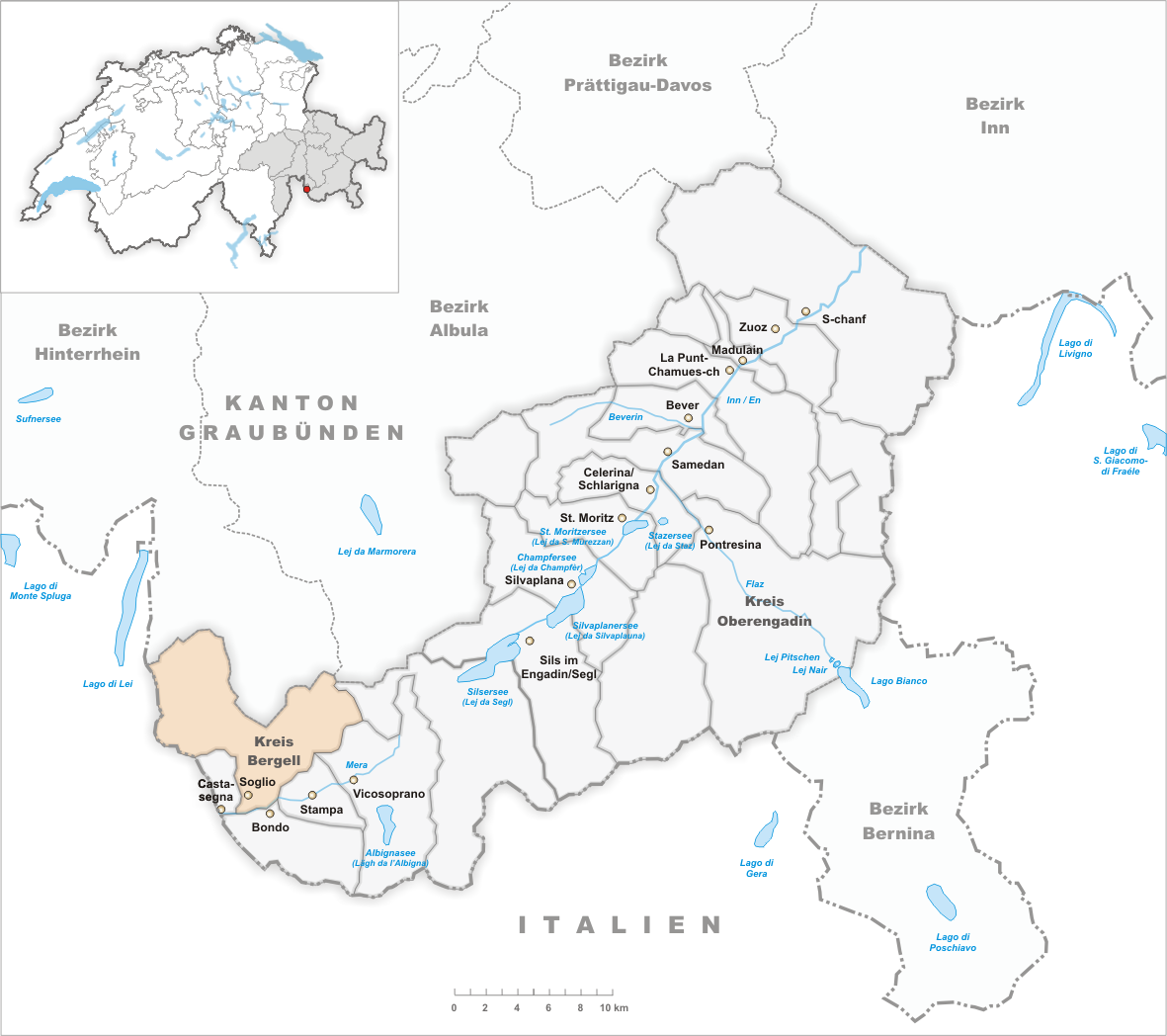 Municipality Soglio